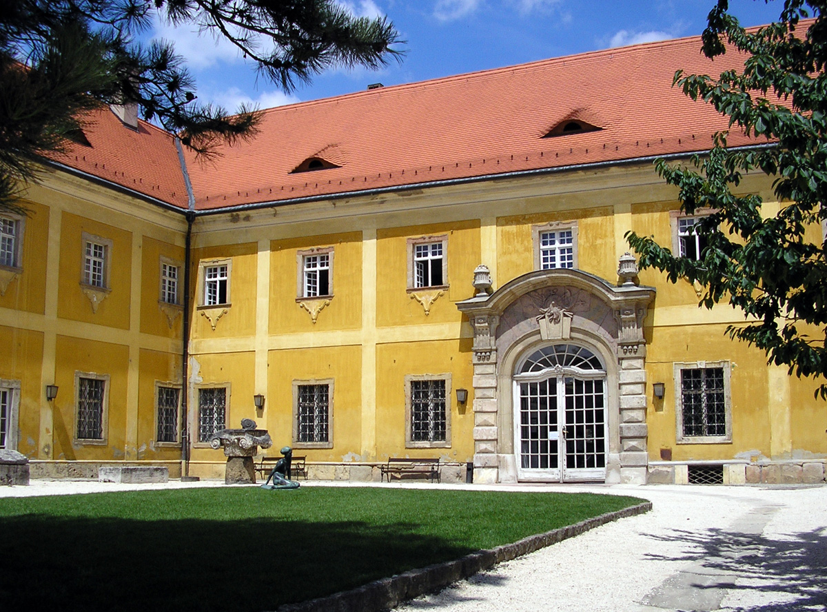 Kiscell Museum, Budapest. The building of the museum.